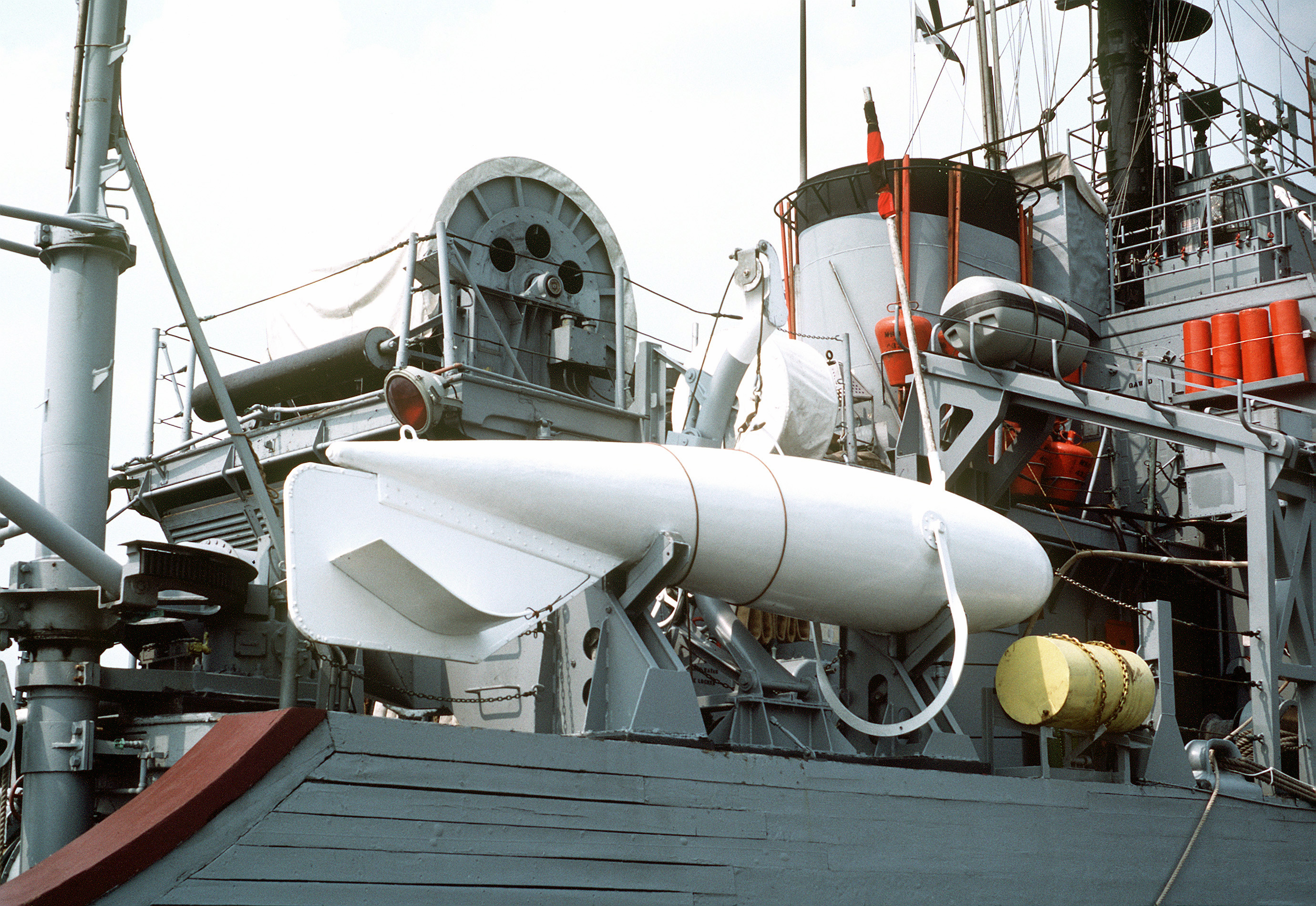 A view of the amidships section of the ocean minesweeper USS ENGAGE (MSO-433) showing a paravane in its storage rack. Location: WASHINGTON, DISTRICT OF COLUMBIA (DC) UNITED STATES OF AMERICA (USA)